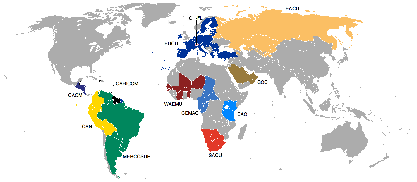 European Union Customs Union (EUCU) Eurasian Customs Union (EACU) East African Community (EAC) West African Economic and Monetary Union (WAEMU) Southern African Customs Union (SACU) Communauté Économique et Monétaire de l'Afrique Centrale (CEMAC) Mercosur Andean Community (CAN) Caribbean Community (CARICOM) Central American Common Market (CACM) Gulf Cooperation Council (GCC) Switzerland — Liechtenstein (CH-FL)